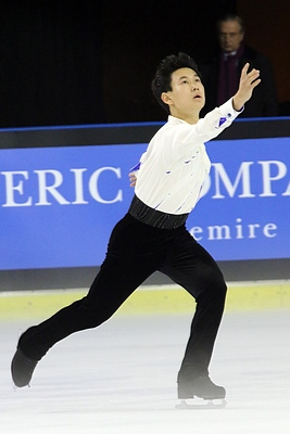 Denis Ten at the 2015 Trophée Eric Bompard